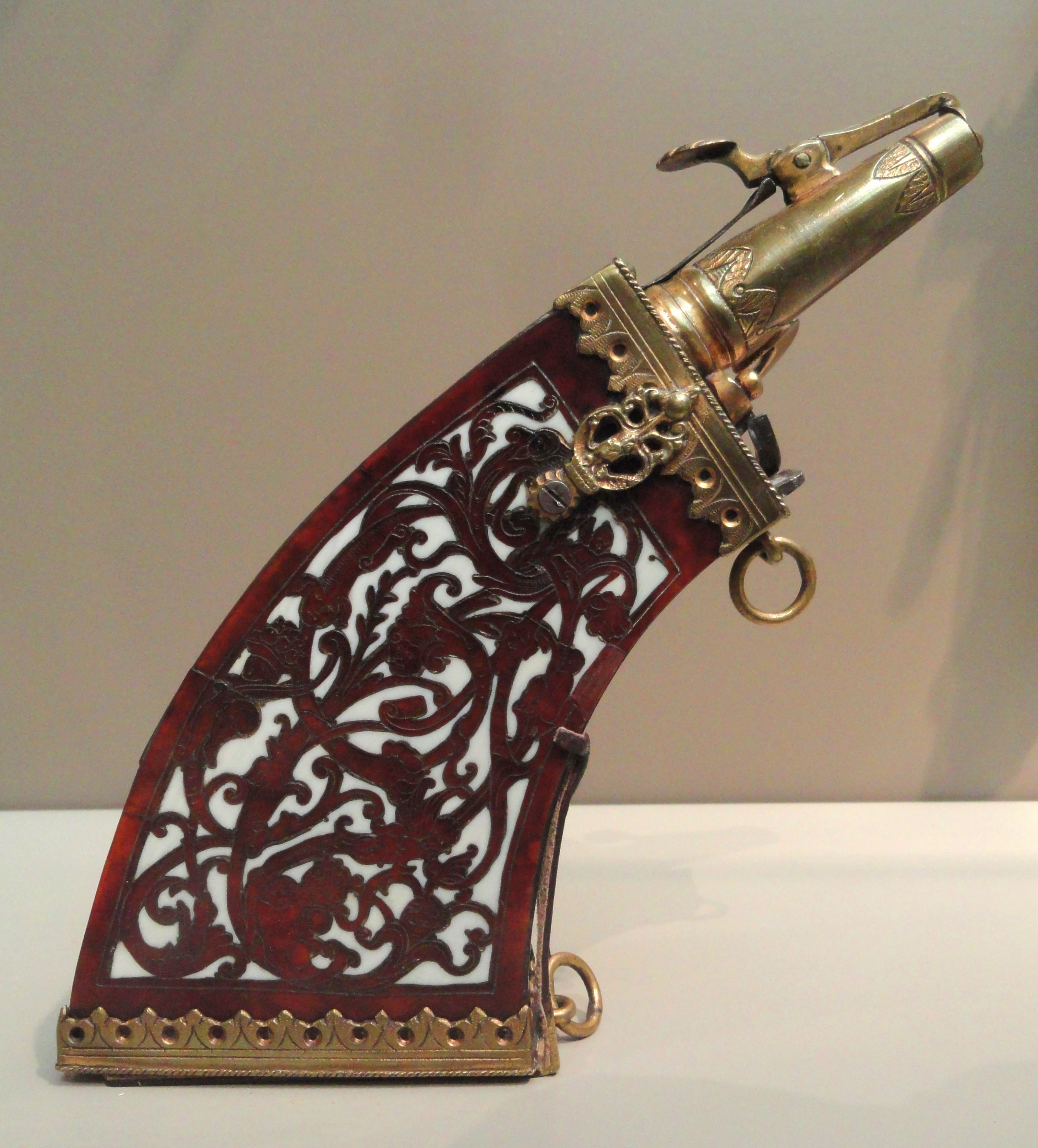 Exhibit in the Art Institute of Chicago, Chicago, Illinois, USA. This artwork is in the public domain because the artist died more than 70 years ago.